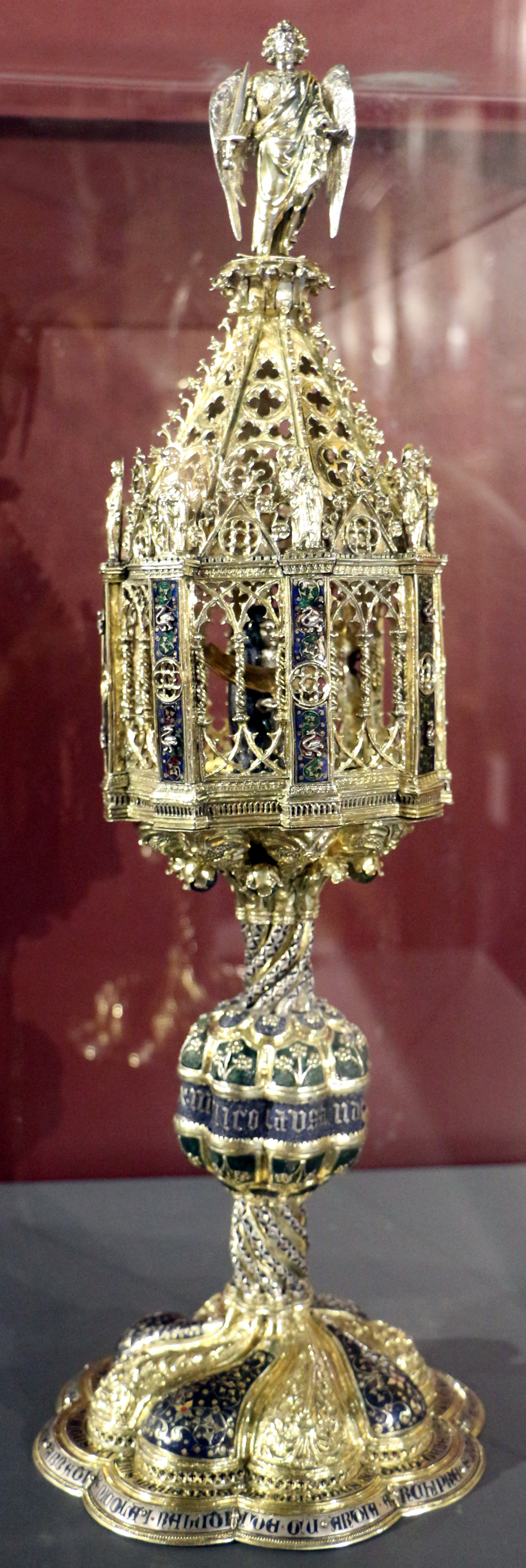 Il Tesoro d'Italia (exhibition at Expo 2015)